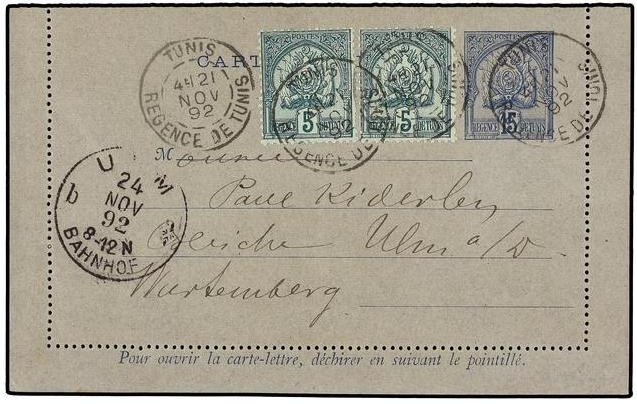 A lettercard from Tunisia dated 1892. Tunis postmark.